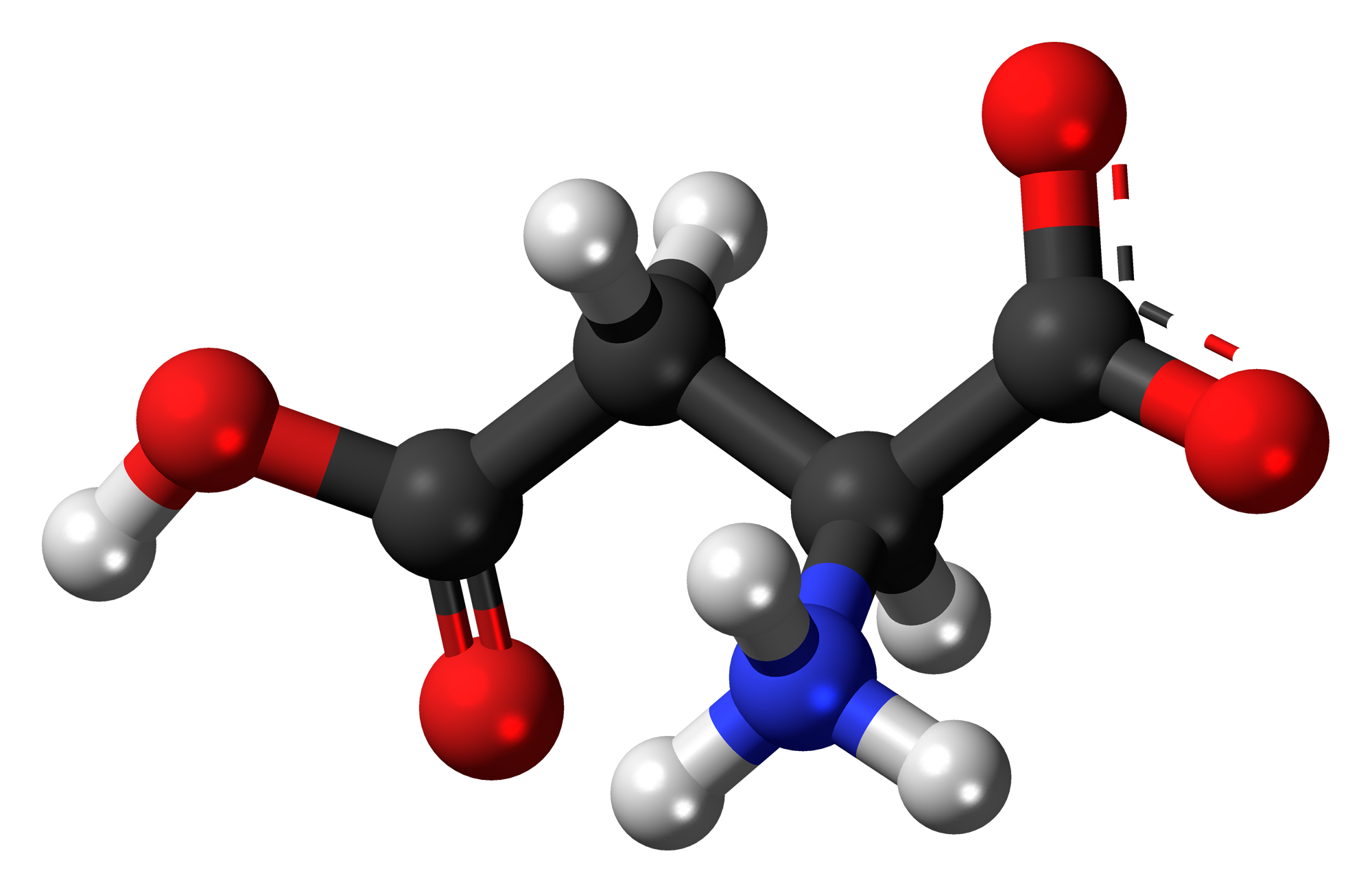 Ball-and-stick model of the aspartic acid molecule, one of the 20 amino acids used to build proteins. This image shows the L isomer in zwitterionic form. Colour code: Carbon, C: black Hydrogen, H: white Oxygen, O: red Nitrogen, N: blue